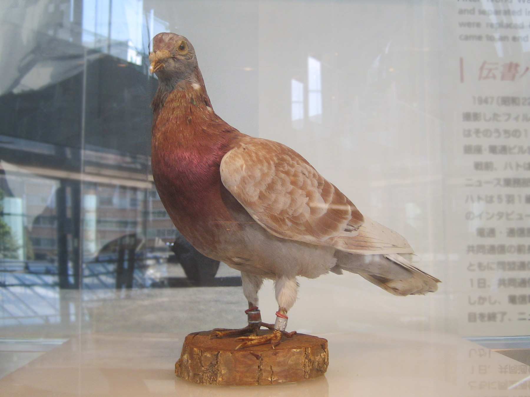 伝書鳩「共同331号」の剥製。共同通信社本社2階にて Taxidermised homing pigeon "Kyodo 331" (共同331号), in the headquarters of Kyodo News